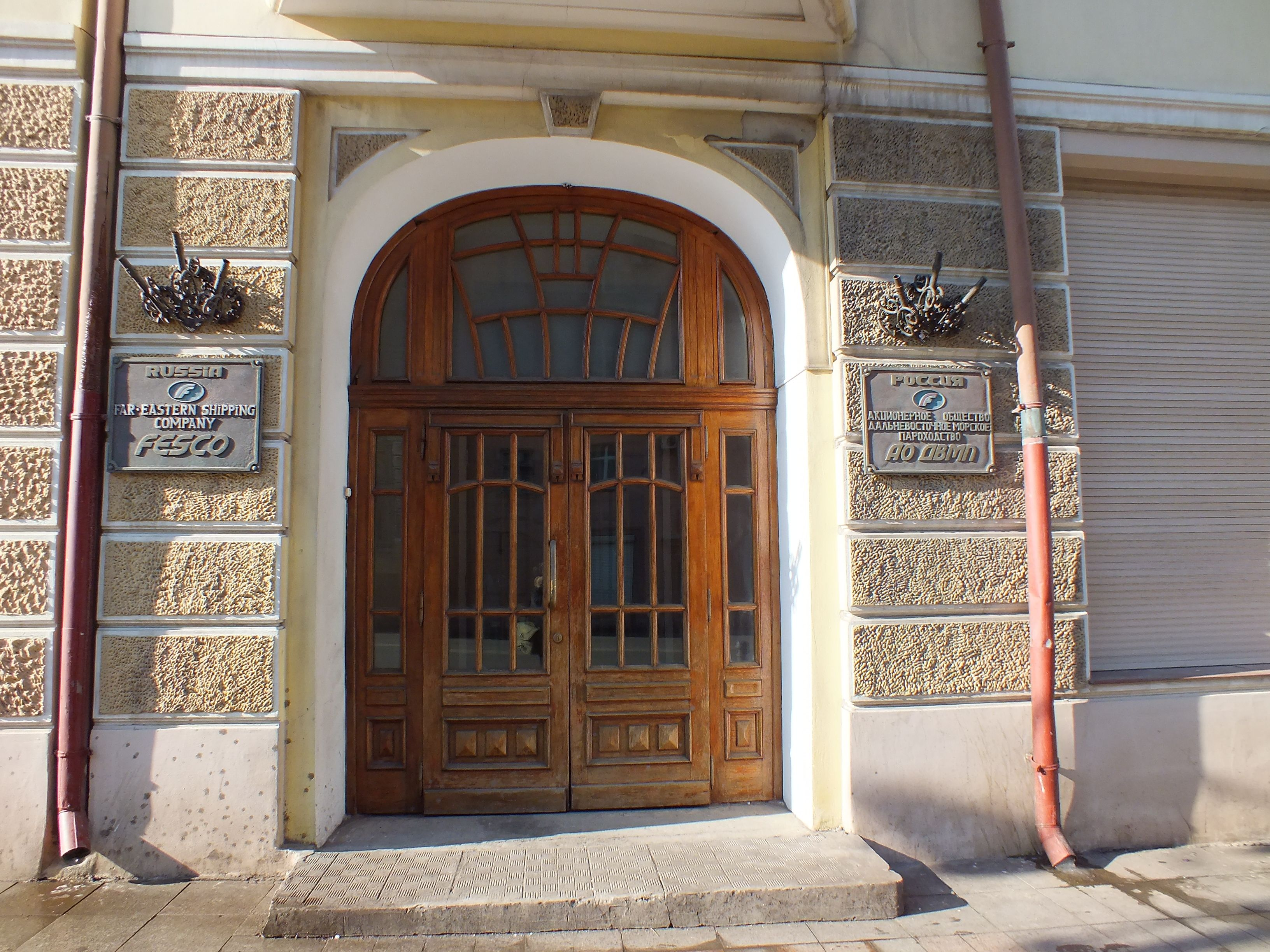 Aleutskaya Street in Vladivostok